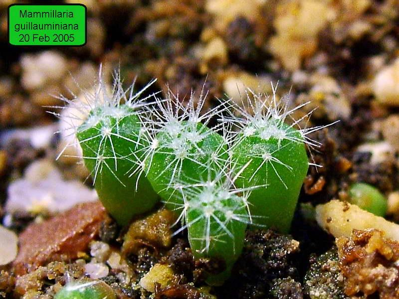 Suleyman_Demir's Mammillaria guillauminiana